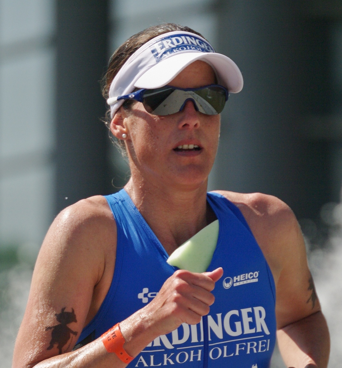 German triathlete Nicole Leder in the Ironman 70.3 Austria on 20 May 2012 in St. Pölten.